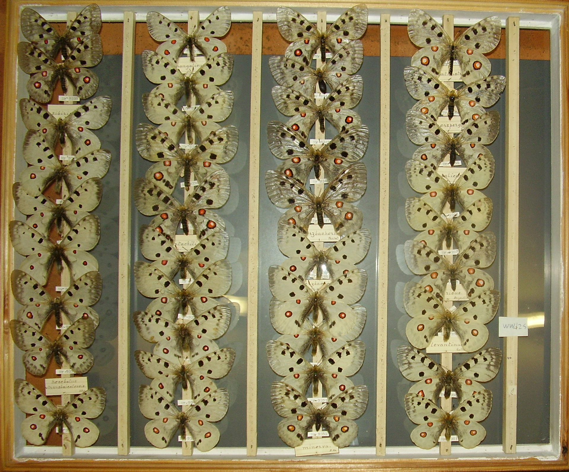 Museum specimens of Parnassius apollo Own photo